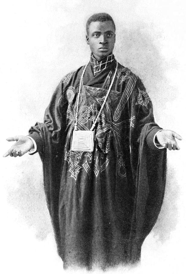 A black man, standing, with close-cropped hair and hands stretched forward and outward. He is wearing heavy embroidered robes.